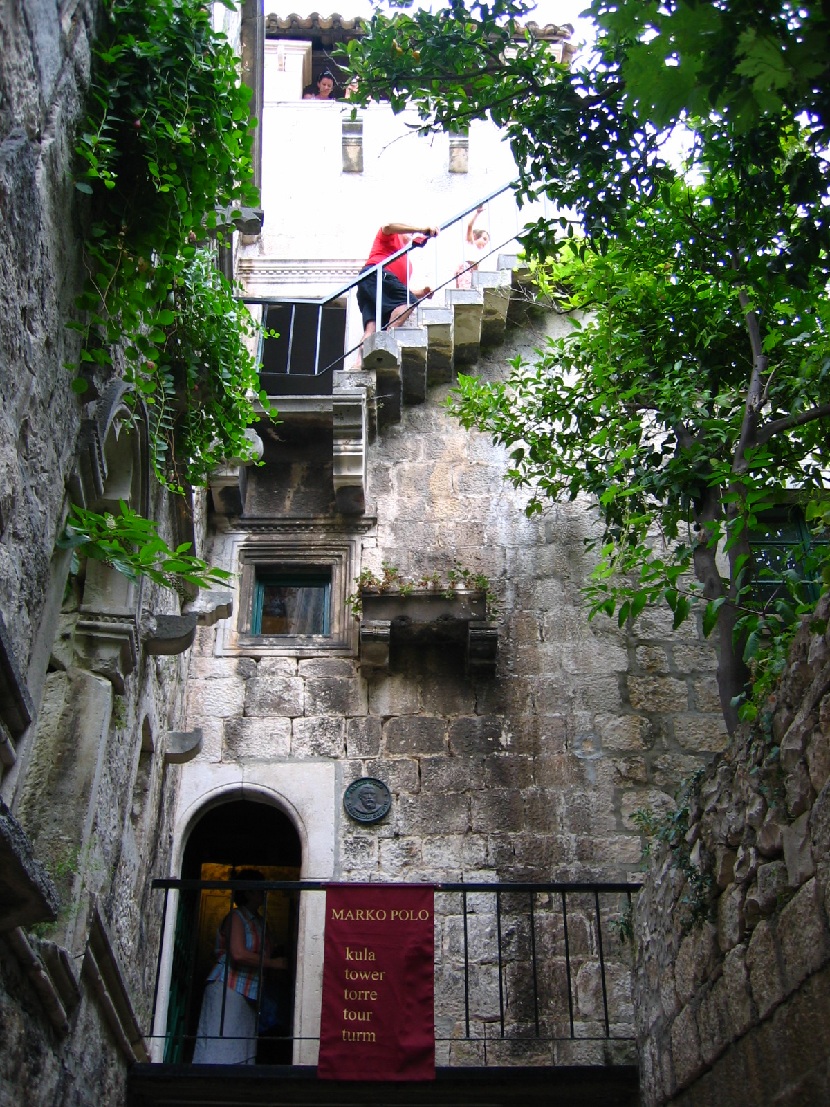 Birthplace of Marco Polo, Korčula, Croatia